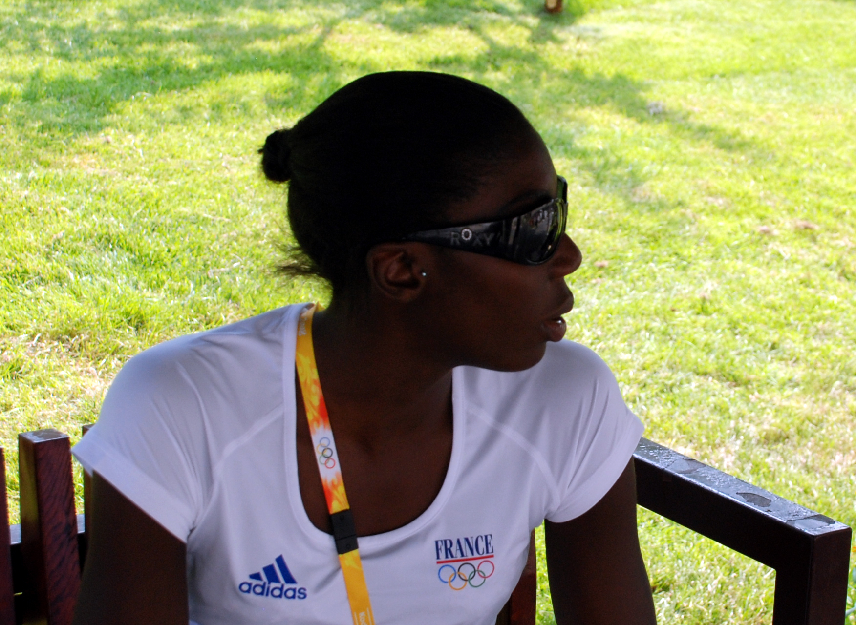 French world champion of Taekwondo Gwladys Epangue